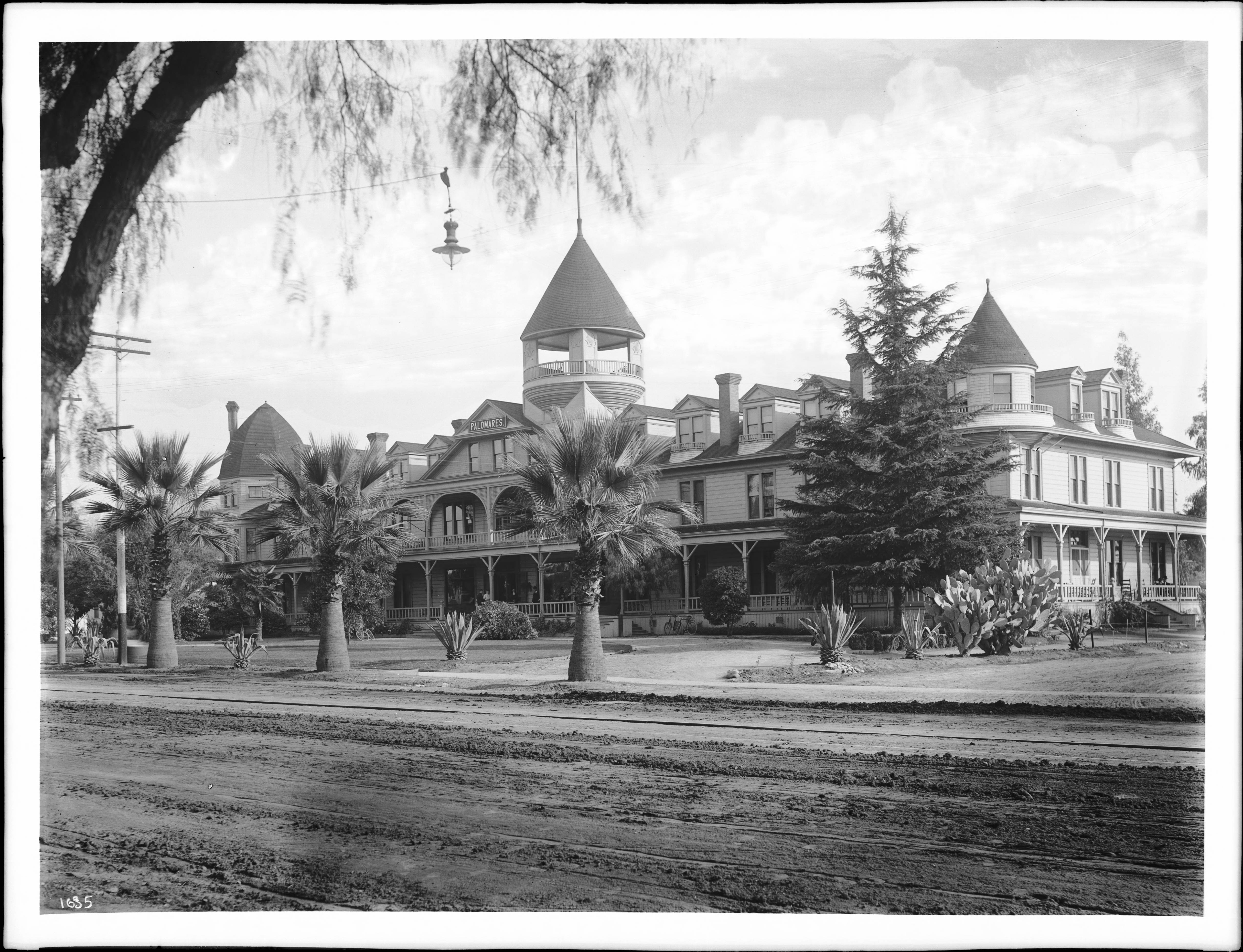 Hotel Palomares, Pomona, ca.1904 Photograph of the exterior of the Hotel Palomares in Pomona, opened by Frank Miller in 1897, ca.1904. The three-story Victorian hotel has numerous towers and gables. A covered porch runs around the perimeter of the first floor. A sign on one of the eaves reads "Palomares". The lawn is neatly trimmed and there are several trees (including three prominent palms) and other plants dotting the grounds. Utility poles and lines are visible. Call number: CHS-1635 Filename: CHS-1635 Coverage date: circa 1904 Part of collection: California Historical Society Collection, 1860-1960 Format: glass plate negatives Type: images Geographic subject (city or populated place): Pomona Repository name: USC Libraries Special Collections Accession number: 1635 Microfiche number: 1-40- Archival file: chs_Volume52/CHS-1635.tiff Part of subcollection: Title Insurance and Trust, and C.C. Pierce Photography Collection, 1860-1960 Repository address: Doheny Memorial Library, Los Angeles, CA 90089-0189 Geographic subject (country): USA Format (aacr2): 1 photograph : glass photonegative, b&w ; 17 x 22 cm. Rights: Digitally reproduced by the USC Digital Library; From the California Historical Society Collection at the University of Southern California Subject (adlf): buildings Project: USC Repository Contributing entity: California Historical Society Date created: circa 1904 Publisher (of the digital version): University of Southern California. Libraries Format (aat): photographs Geographic subject (state): California Subject (file heading): Los Angeles County -- Pomona -- Architecture Legacy record ID: chs-m6240; USC-1-1-1-6348 Access conditions: Send requests to address or e-mail given. Phone (213) 821-2366; fax (213) 740-2343. Geographic subject (county): Los Angeles Subject (lcsh): Hotels, taverns, etc. Subject: Miller, Frank; Palomares Hotel